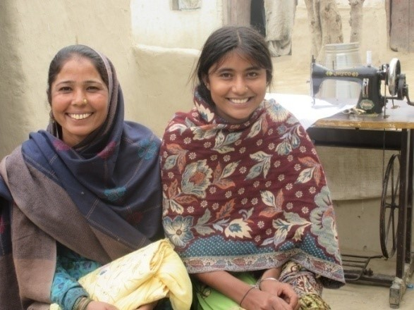 IDRF is empowering a new generation of women who are able to support themselves financially, participate in local governance, provide healthcare for their families and themselves, and, stand up for equality at home and in their communities.